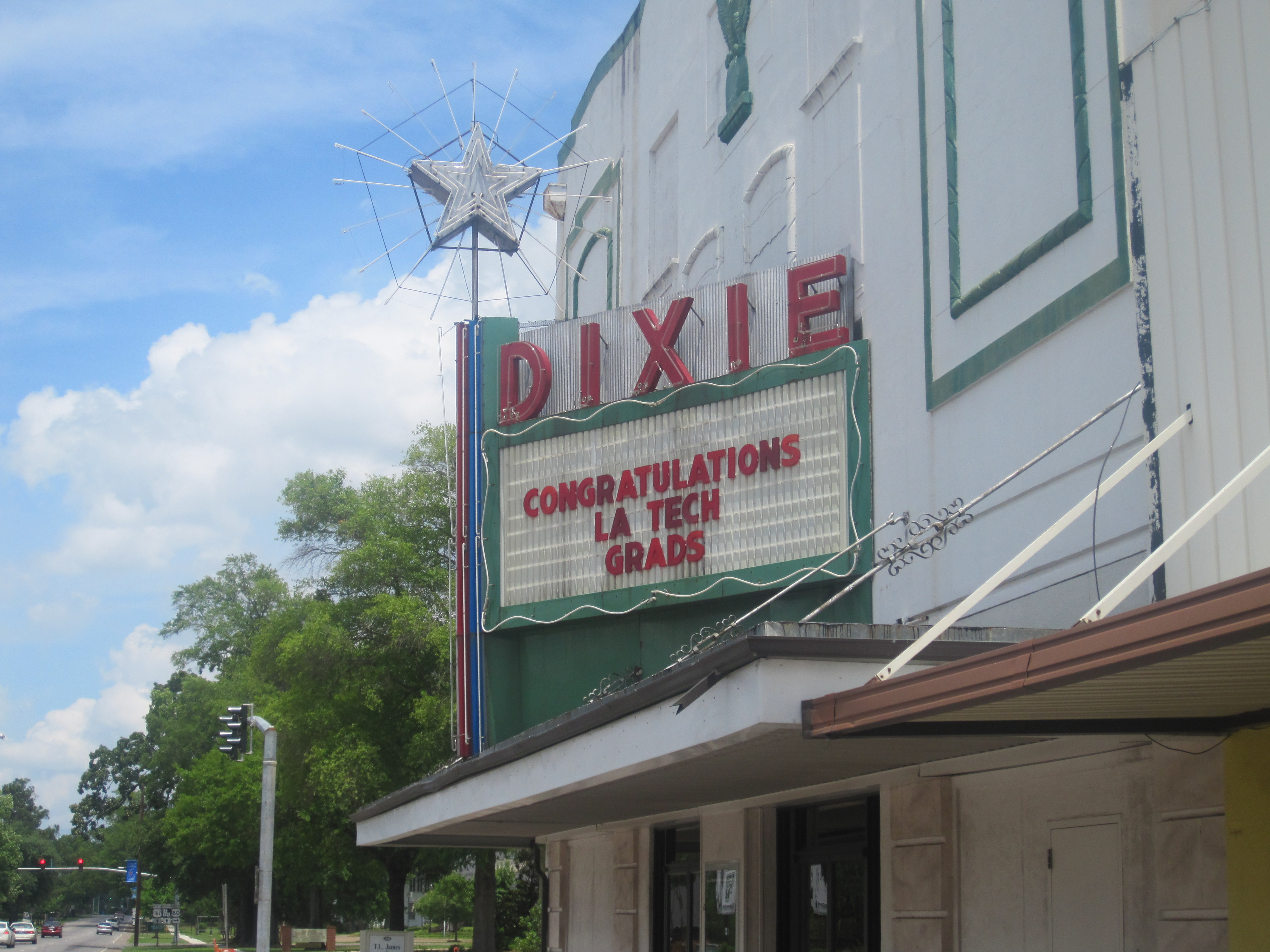 I took photo with Canon camera.